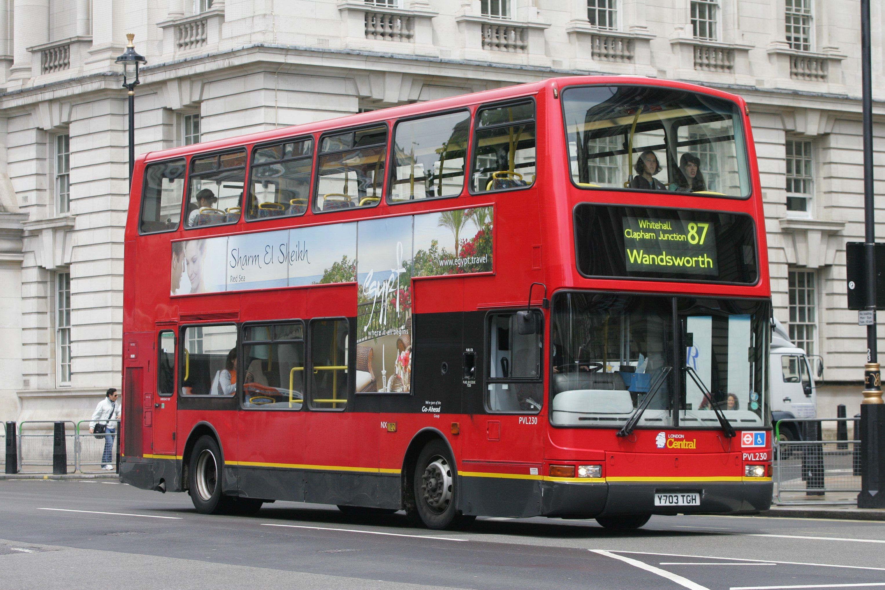 London Central bus PVL230 (reg. Y703 TGH), a 2001 Volvo B7TL double-decker with Transbus President bodywork, operating London Buses route 87.